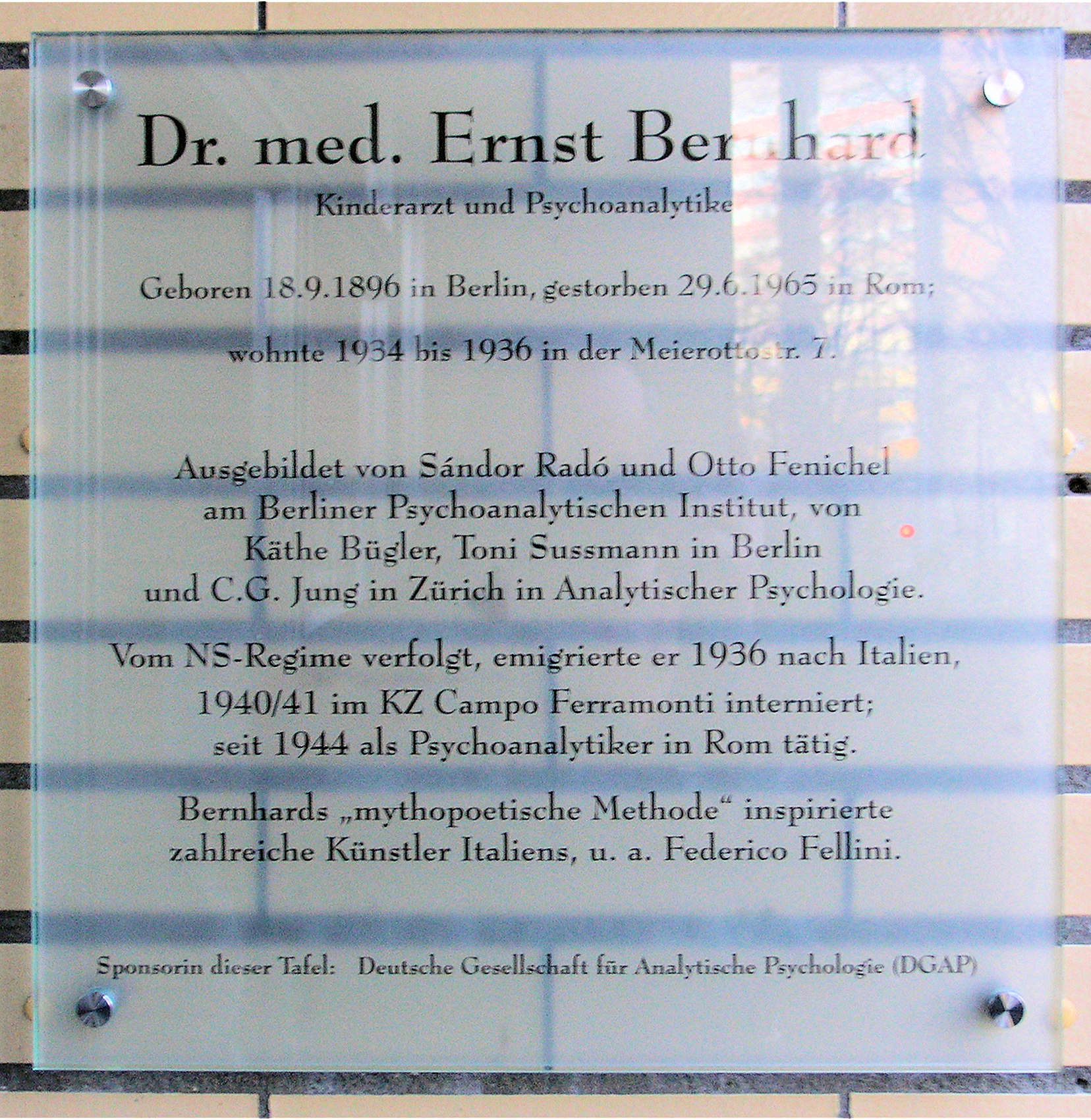 Memorial plaque, Ernst Bernhard, Meierottostraße 7, Berlin-Wilmersdorf, Germany